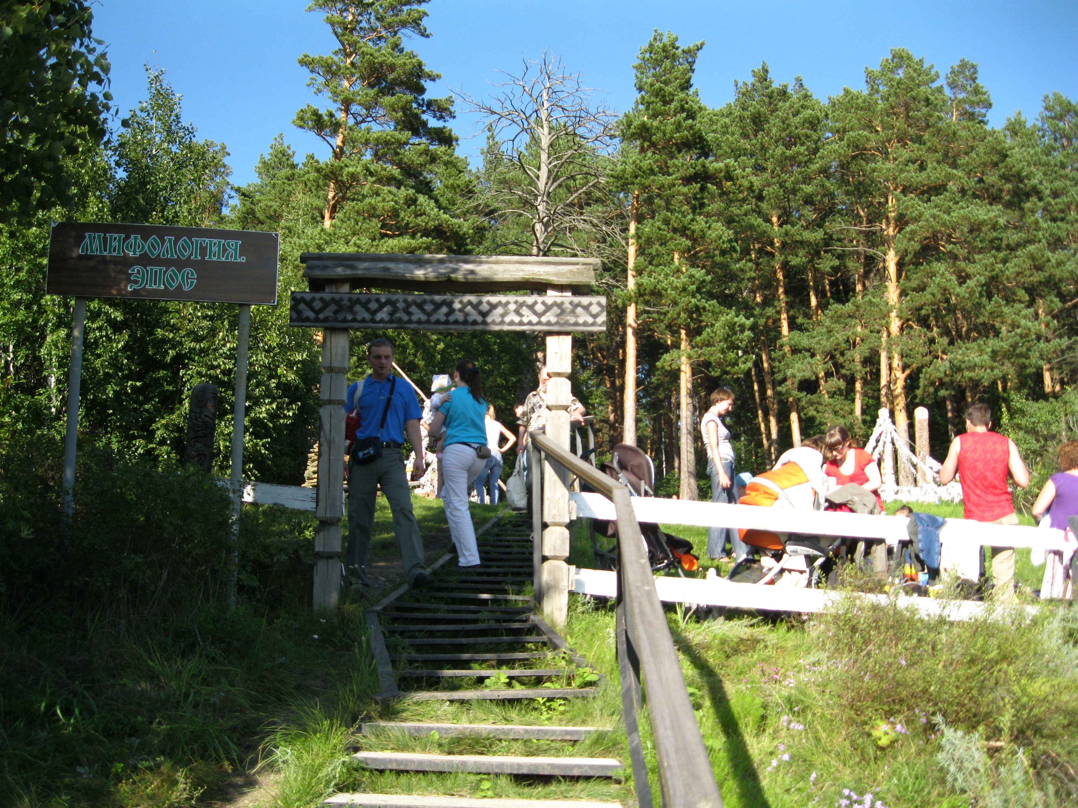 Mythological field in Tomskaya Pisanitsa museum, Kemerovo Oblast, Russia